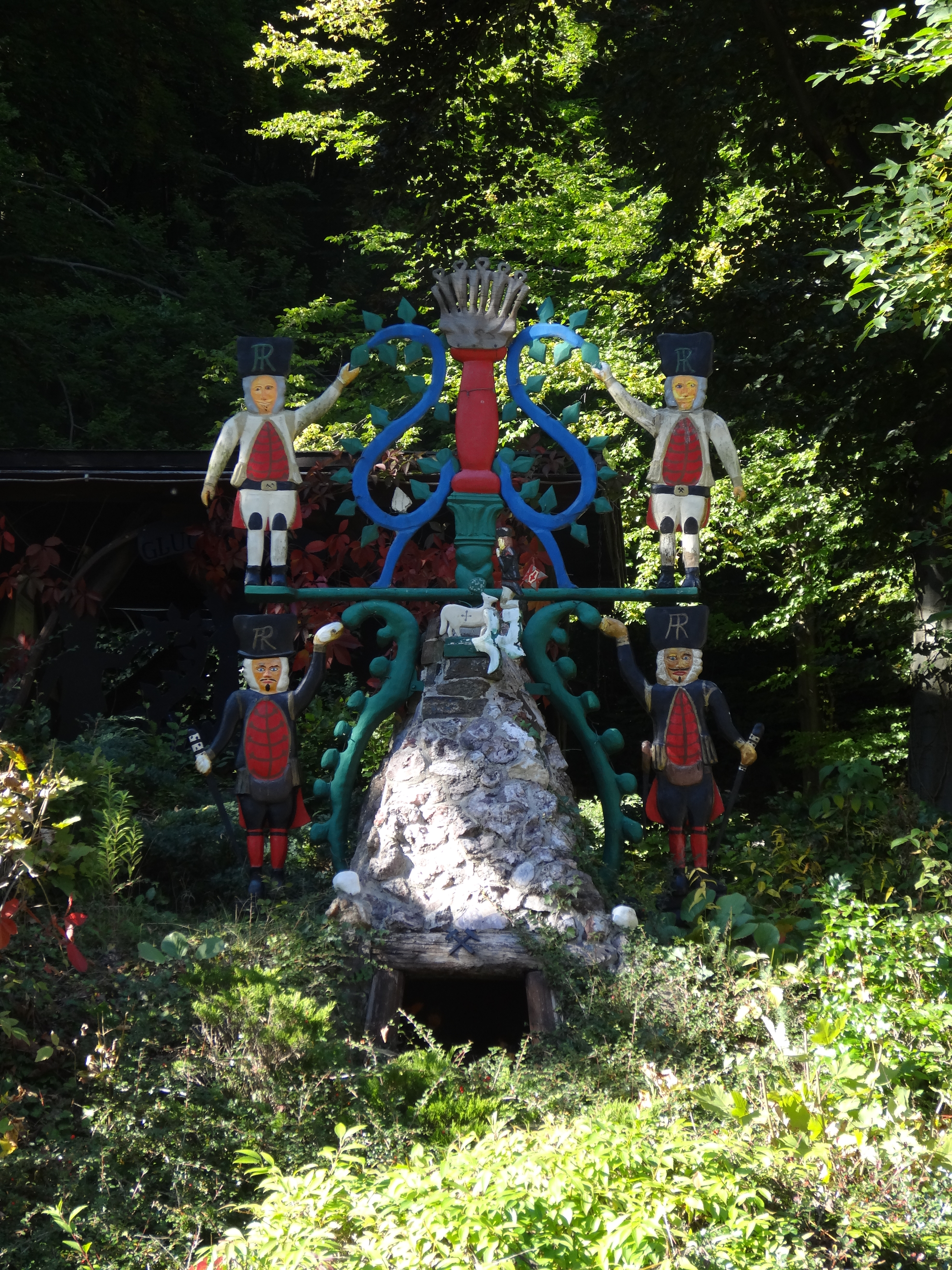 Former mine in Asbach (Schmalkalden), Thuringia, Germany